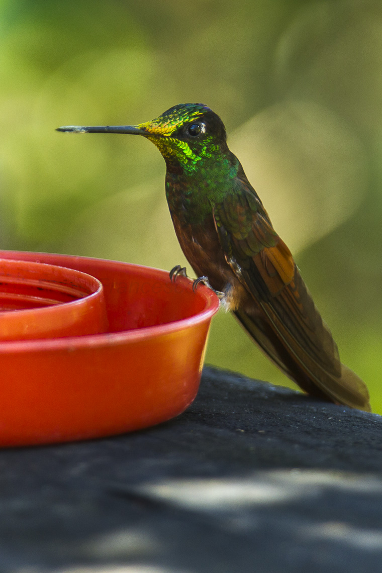 Rainbow Starfrontlet - Ecuador_S4E0095